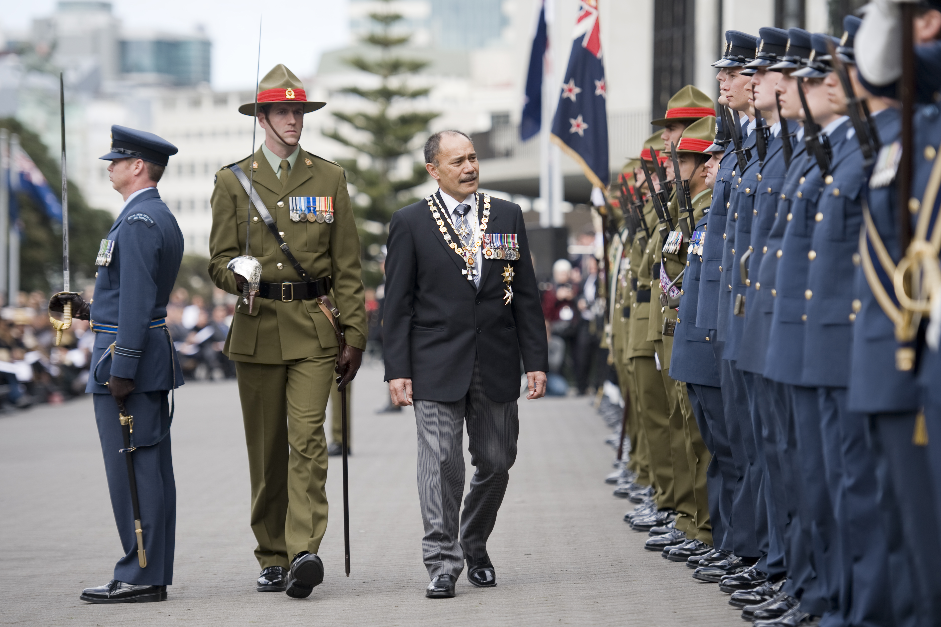 Swearing in ceremony of LTGEN Sir Jerry Mateparae as Governor-General at Parliament. The Defence Force provided a 100 man Royal Guard of Honour for the occasion. Sir Jerry inspects the guard. 20110831_WN_S1015650_0033.jpg